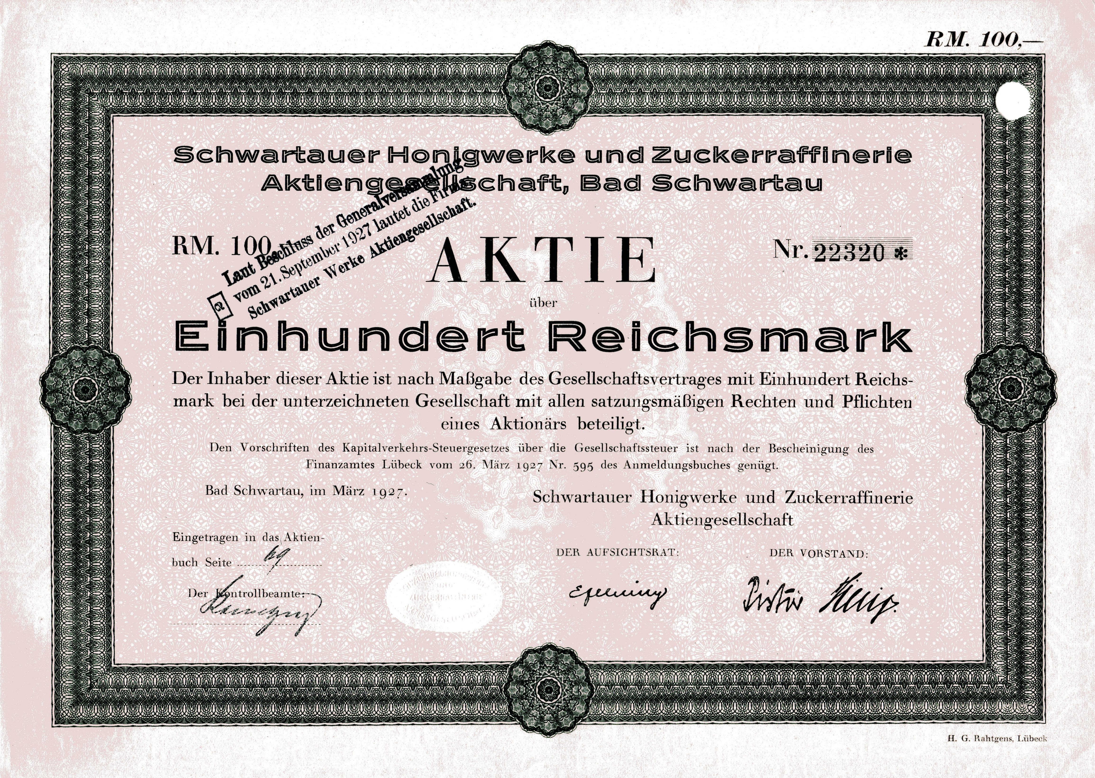 Share of the Schwartauer Honigwerke und Zuckerraffinierie AG, issued March 1927